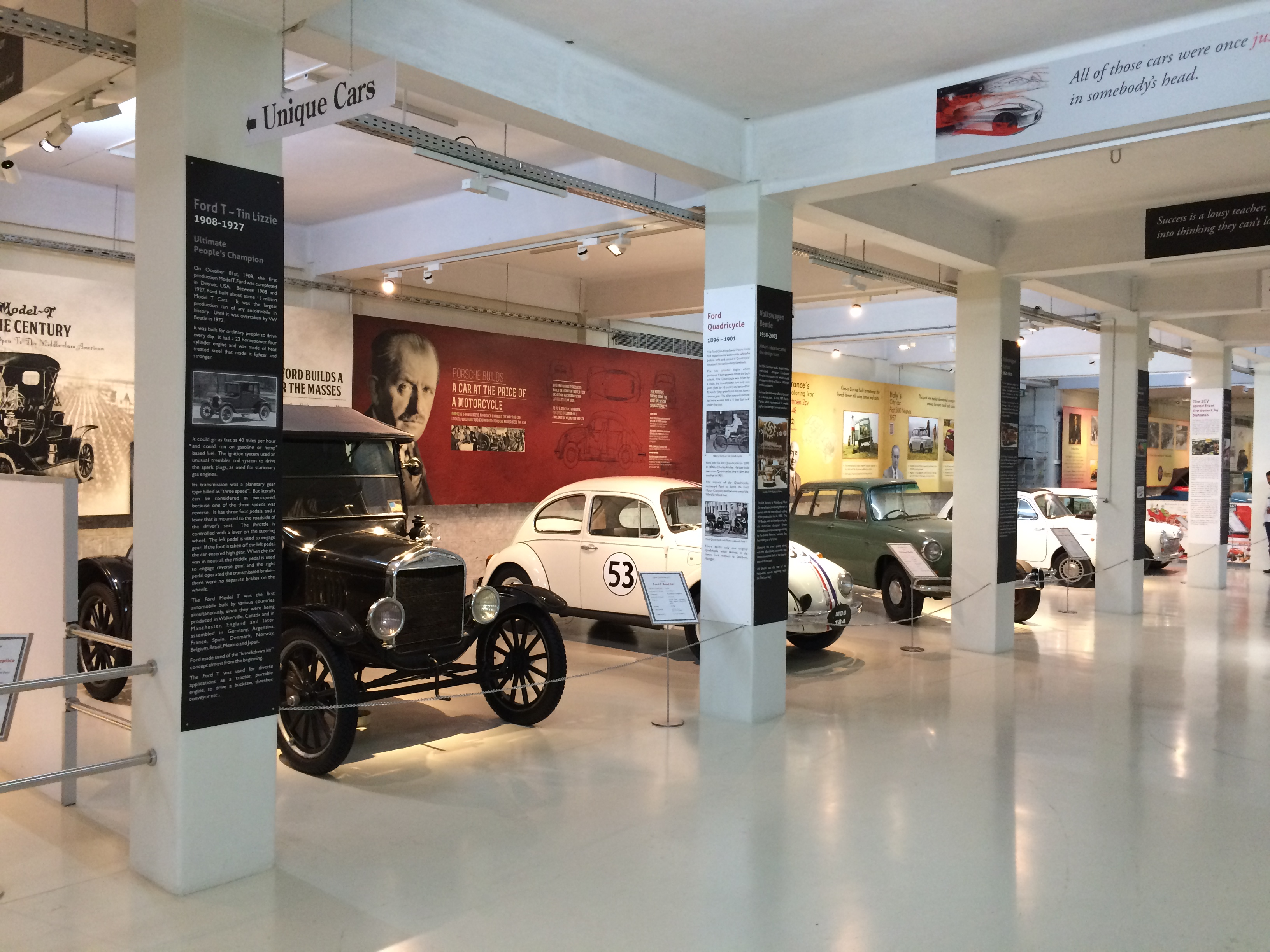 Car on display at Gedee Car Museum, Coimbatore.